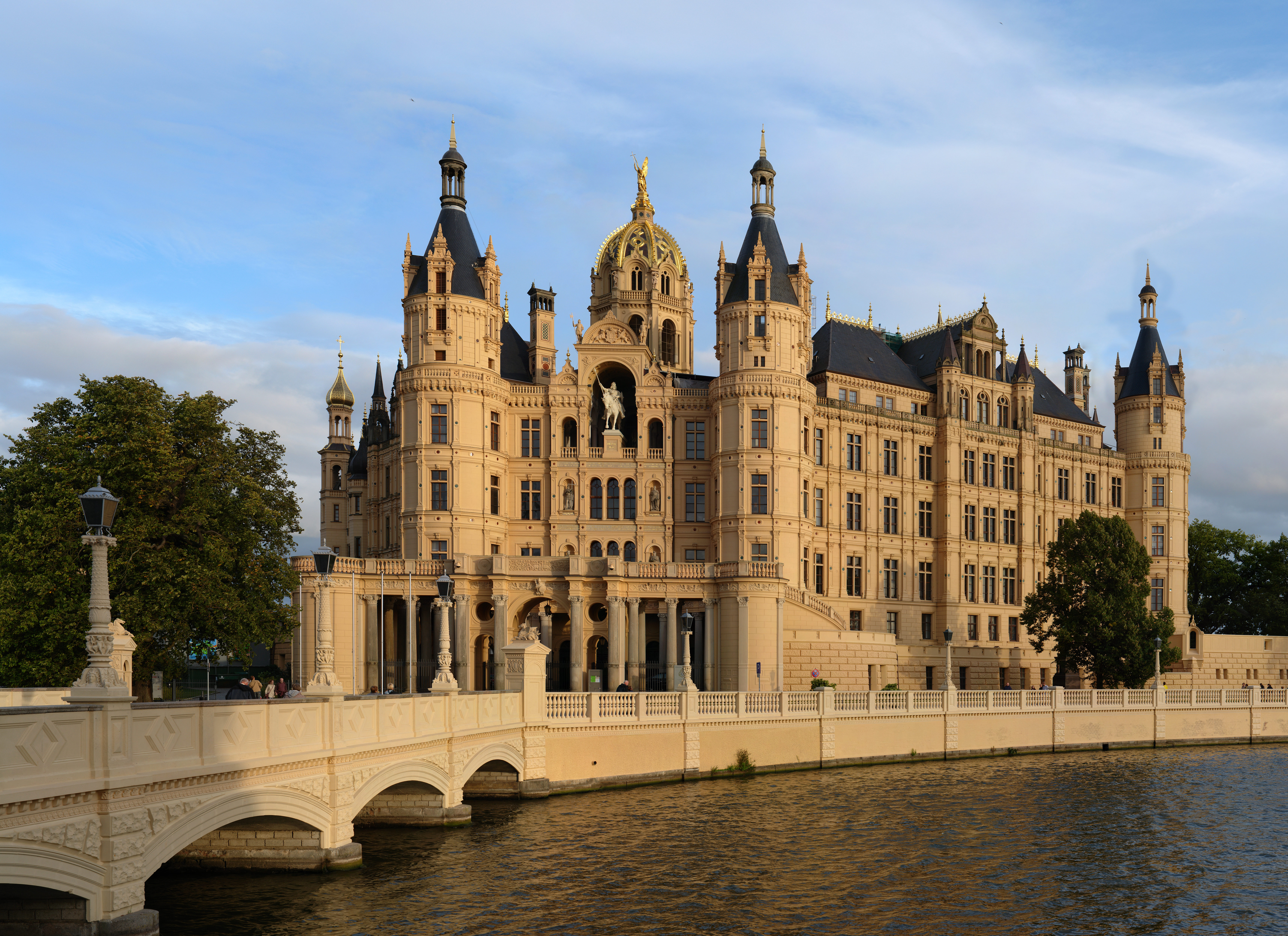 front aspect of Schwerin Castle, Germany